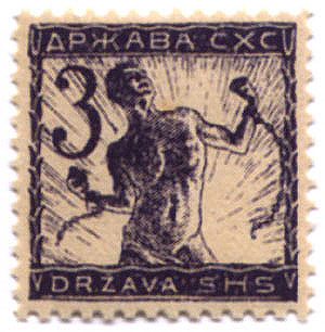 Stamp from the Verigar issue issued in Slovenian regions of the State of Slovenes, Croats and Serbs, 3 hellers, 1919